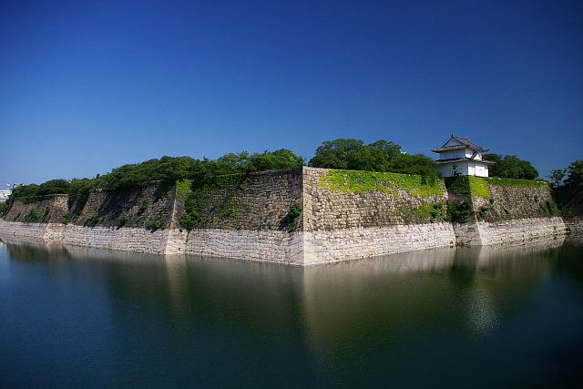 South Outer Moat, Osaka Castle, Osaka City, Japan